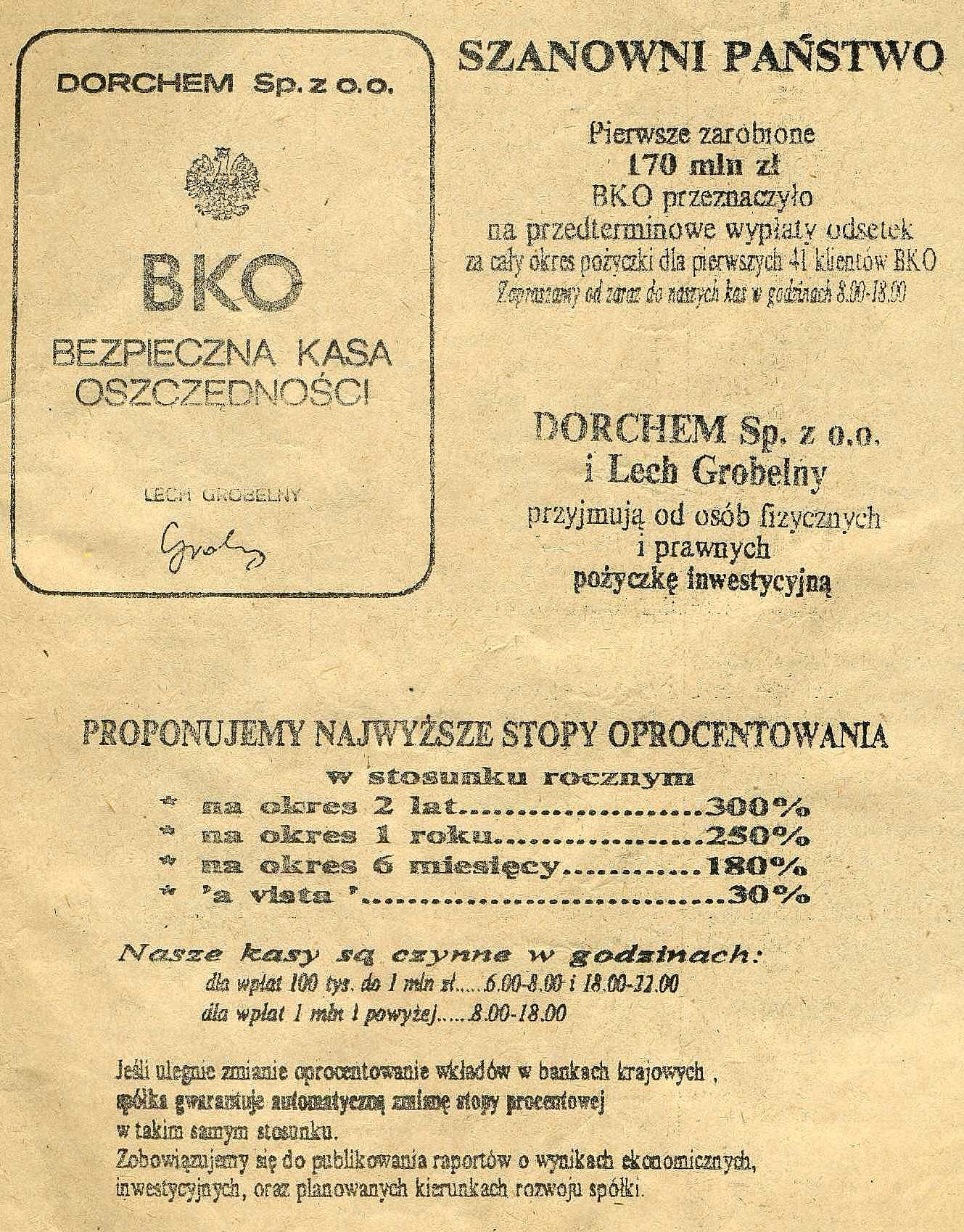 Ad for "Bezpieczna Kasa Oszczędności", a Polish quasi-bank (Ponzi scheme), published in Express Wieczorny, Kulisy, December 8, 1989.